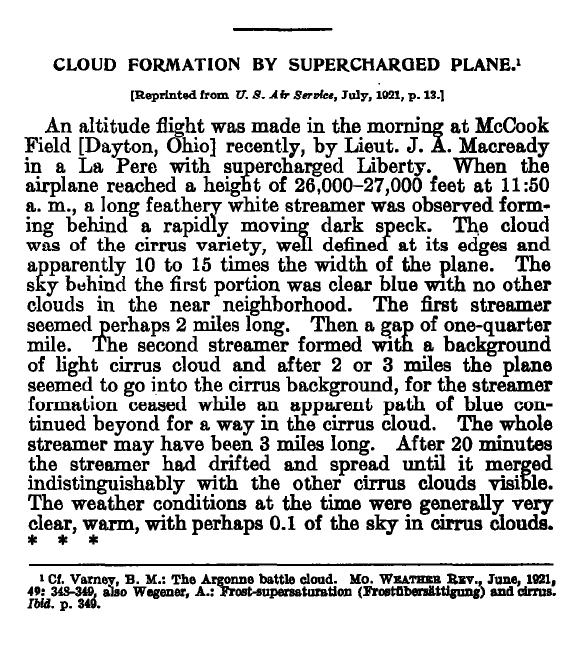 "Cloud Formation from Supercharged Plane": passage from Monthly Weather Review describing an early instance of contrail formation from a supercharged aircraft. This may be the first known description of such phenomena.